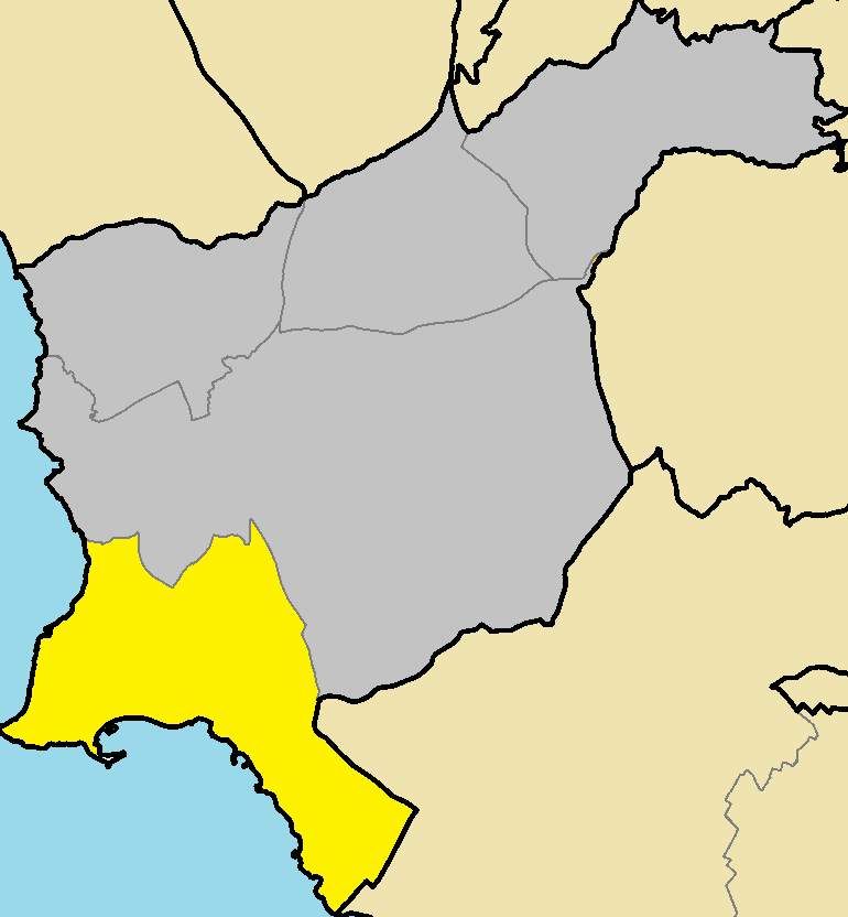 Kato Paphos in Paphos Municipality.